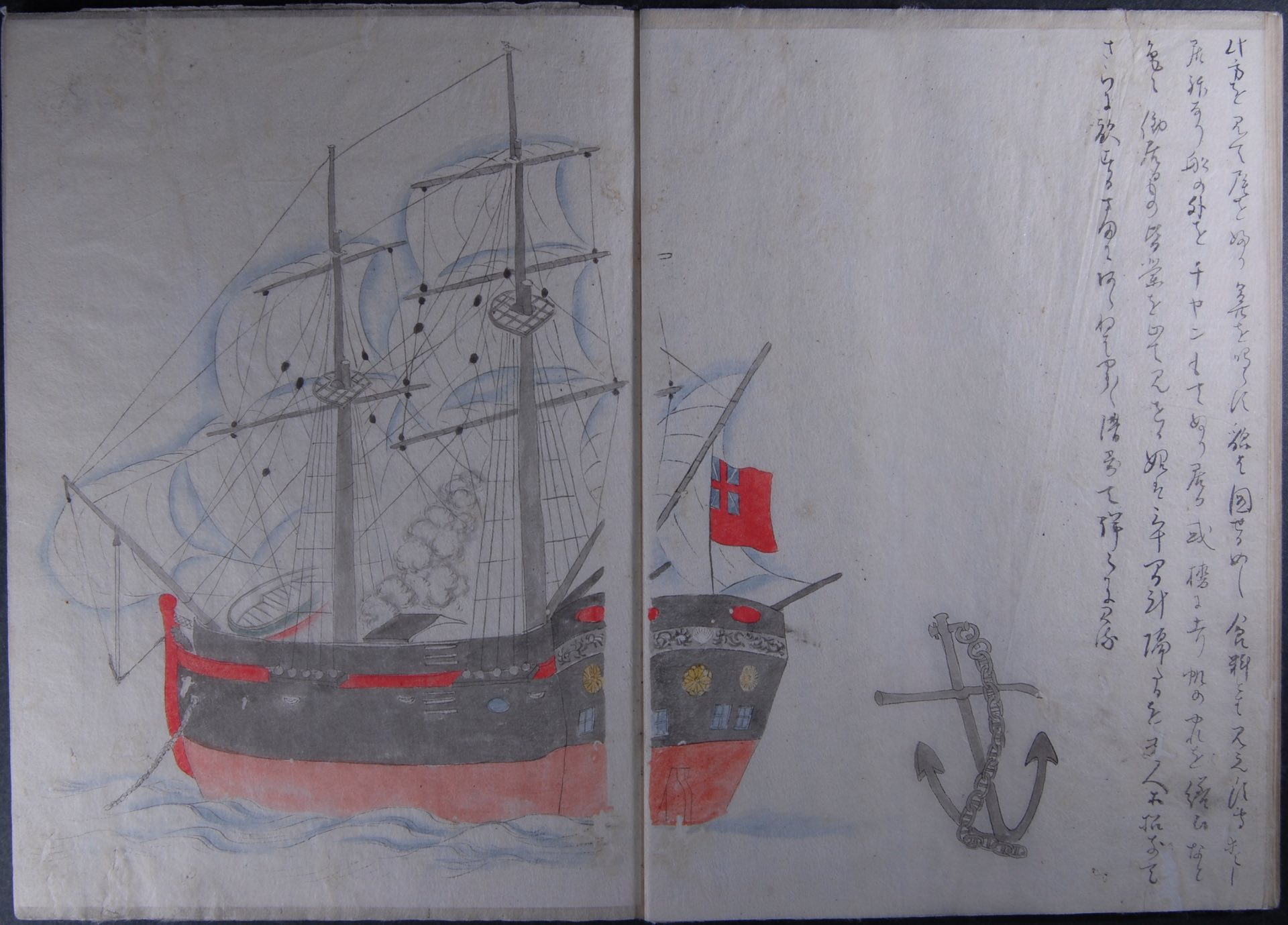 A watercolour of a British-flagged ship that arrived off the coast of Mugi, in Shikoku, Japan in 1830, chronicled by low-ranking Samurai artist Makita Hamaguchi in documents from the Tokushima prefectural archive.